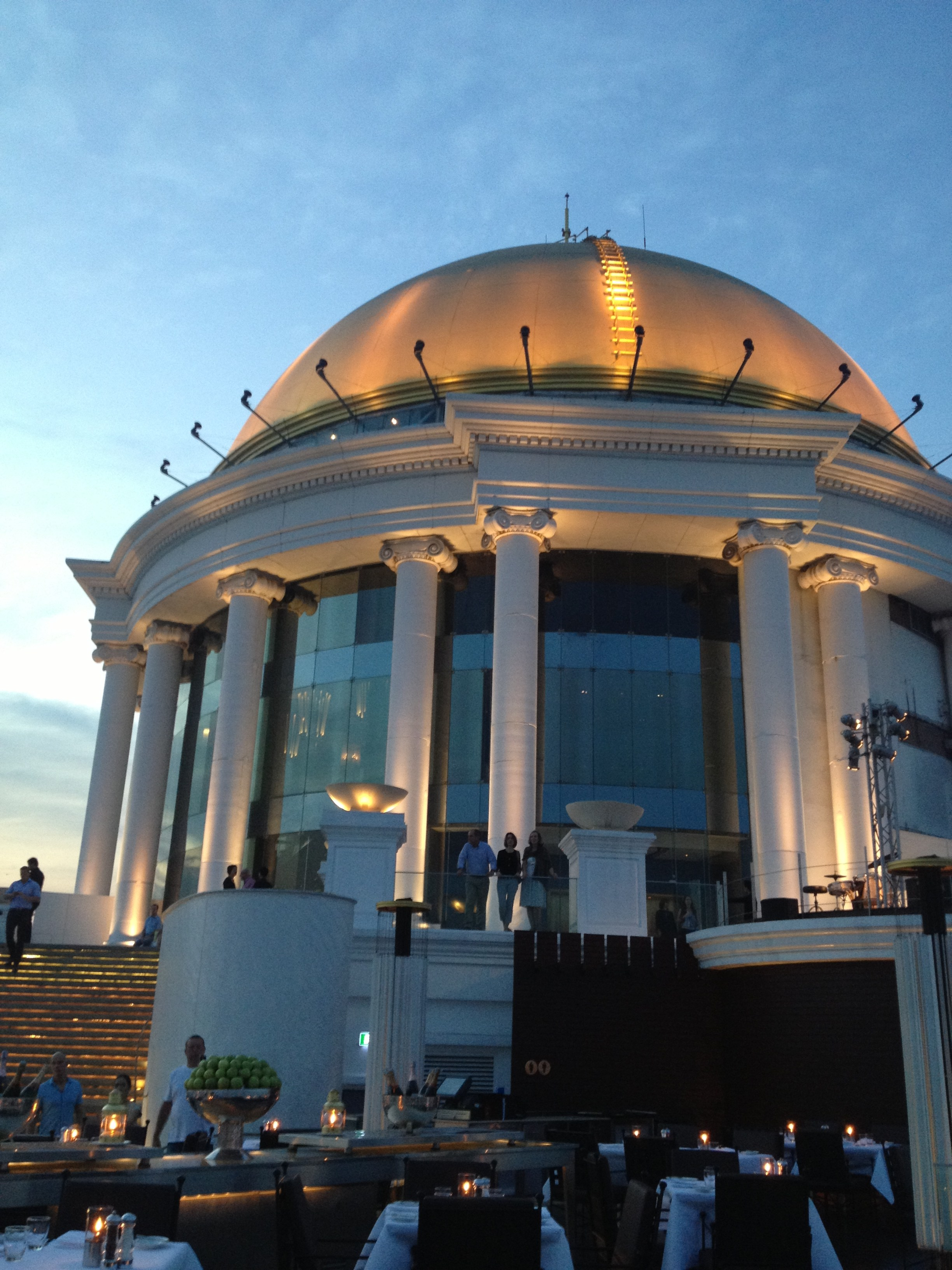 The Dome at State Hotel, Bangkok, Thailand, 64th Floor, Roofdeck